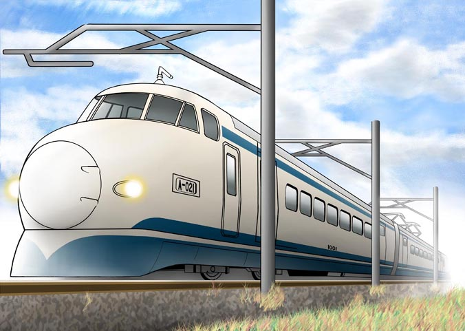 Artist's impression of the JNR prototype class 1000 series shinkansen set A